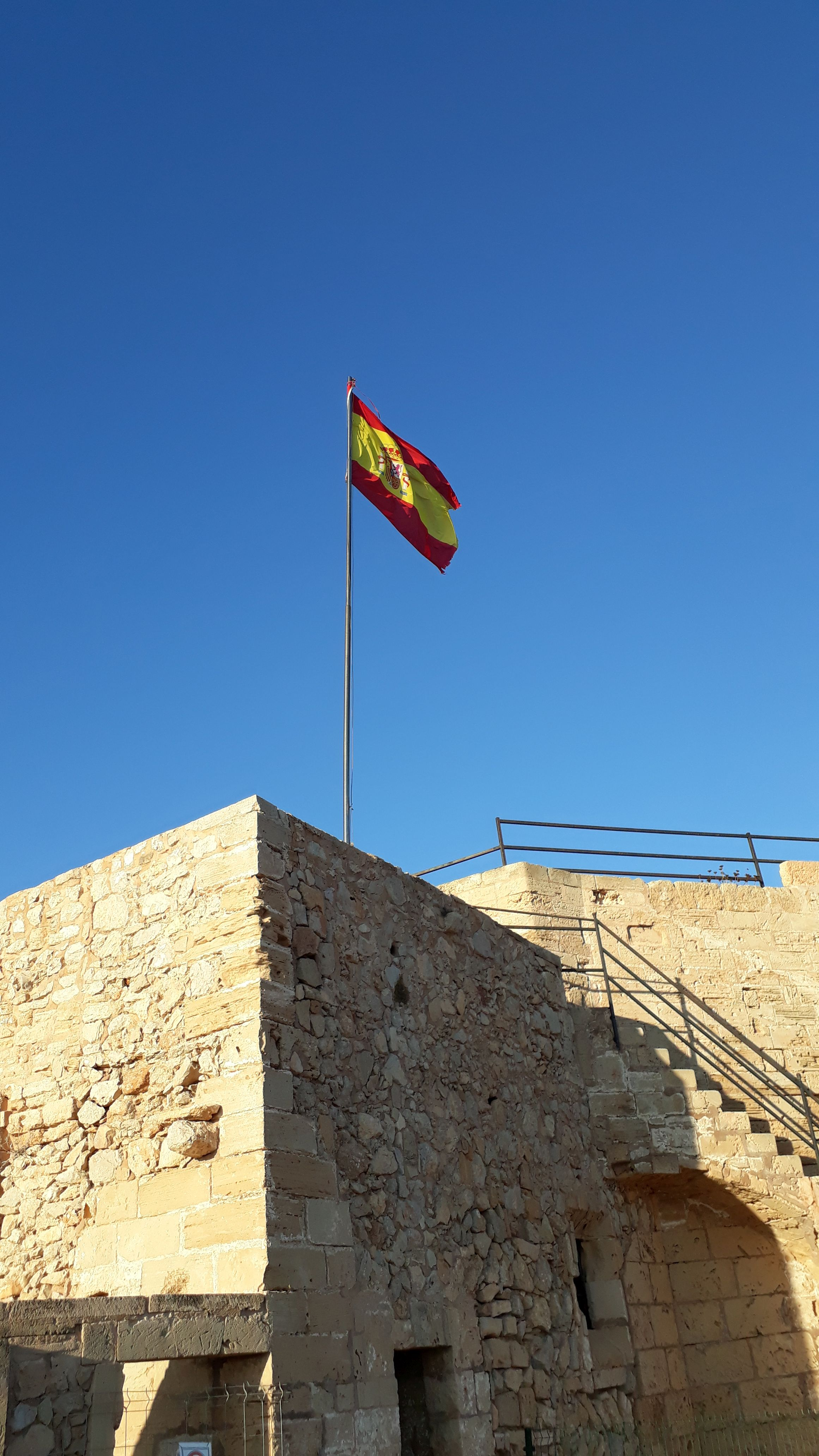 Fort of the island of Cabrera near Mallorca.